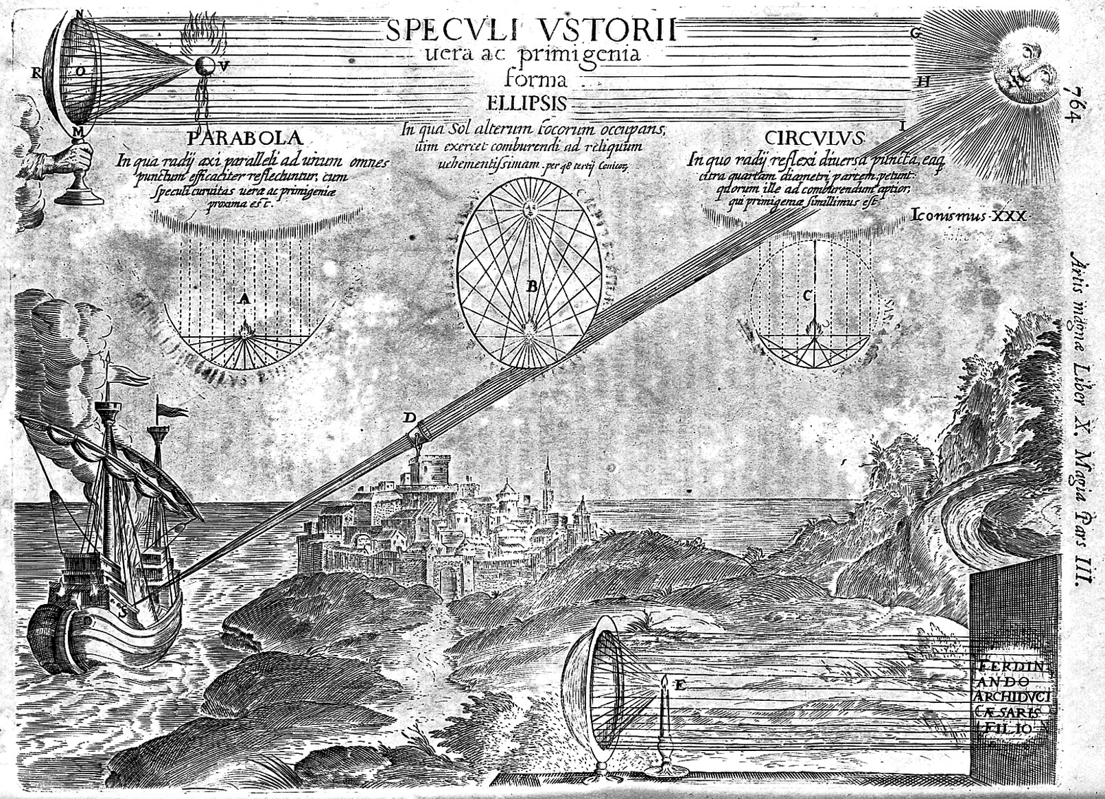 Burning mirrors. Rare Books Keywords: Kircher, Athanasius